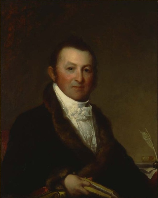 Massachusetts politician Harrison Gray Otis